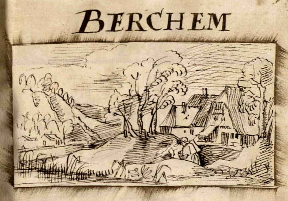 "Berchem", Berchem, Luxembourg by Jean Bertels, ~1597